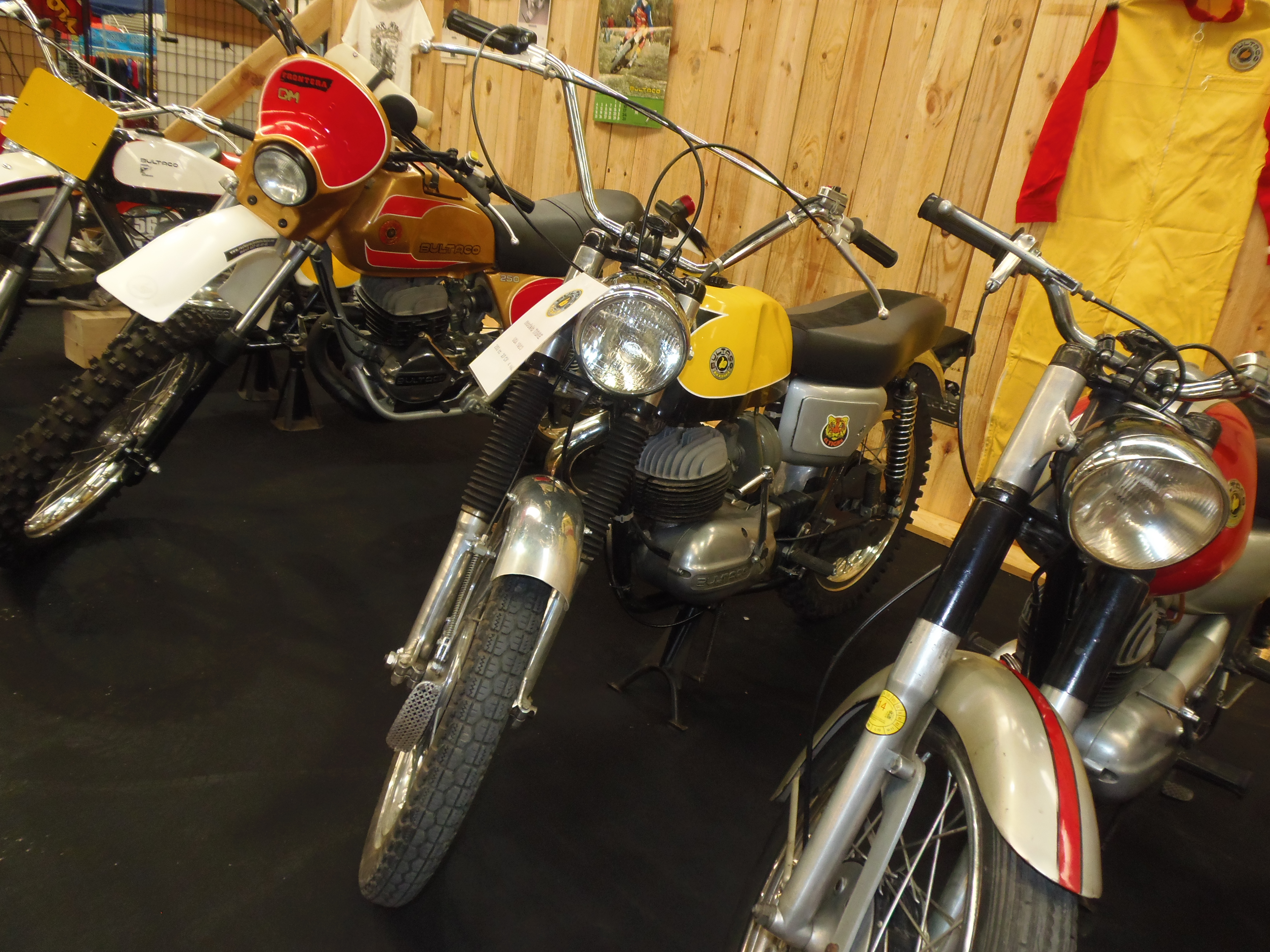 In yellow: Bultaco El Tigre 250, 1969